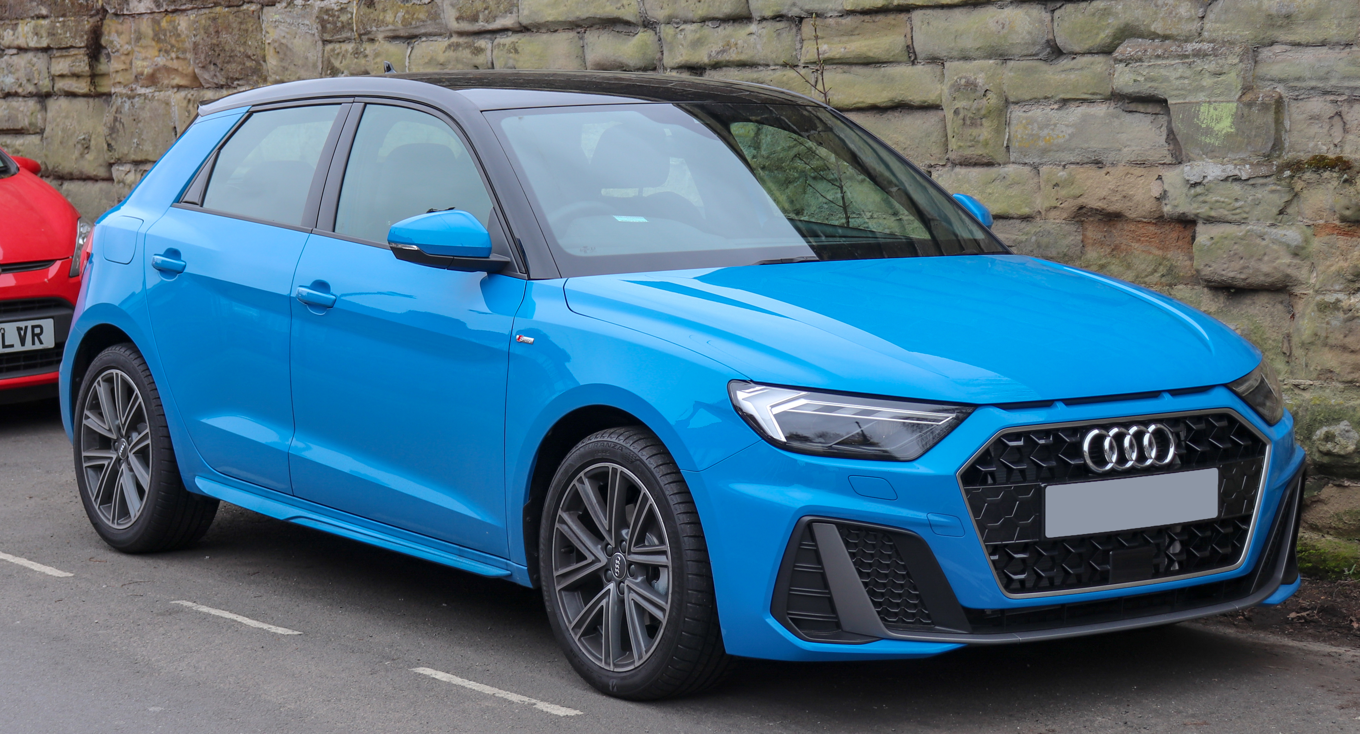 2019 Audi A1 S Line 30 TFSi 1.0 Front Taken in Warwick